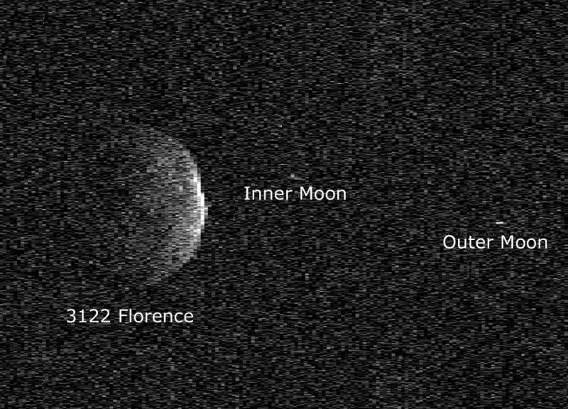 Asteroid 3122 Florence with its moons.